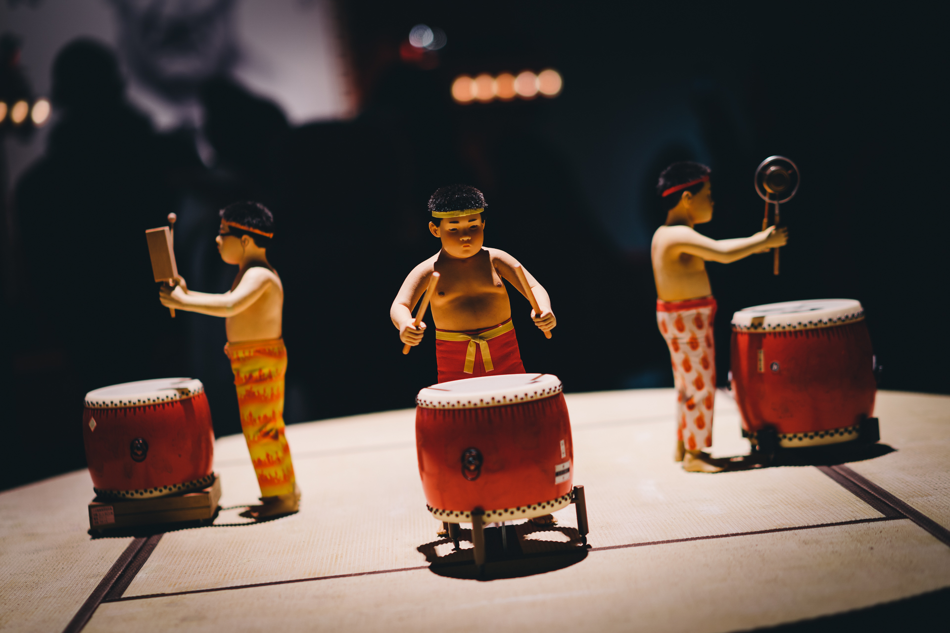 Sets from the film Isle of Dogs